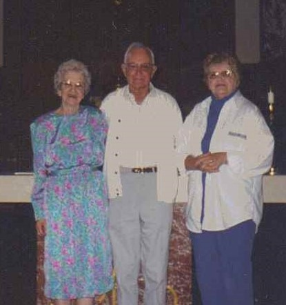 Dan Gernatt, Sr. with Lillian Gugino and Babs Reid at St. Joseph Church, 2006